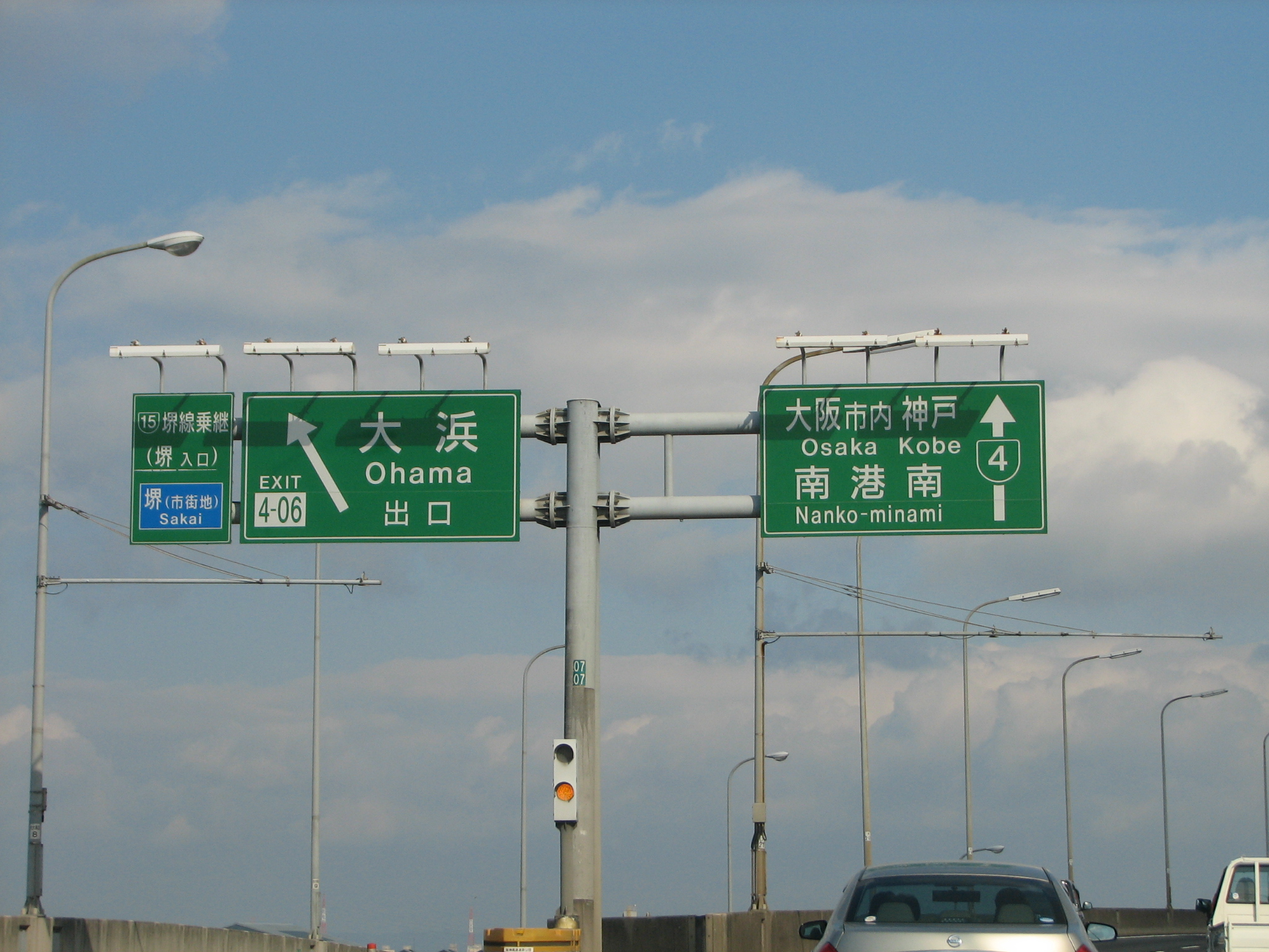 Hanshin Expressway Ōhama IC (for Kobe)